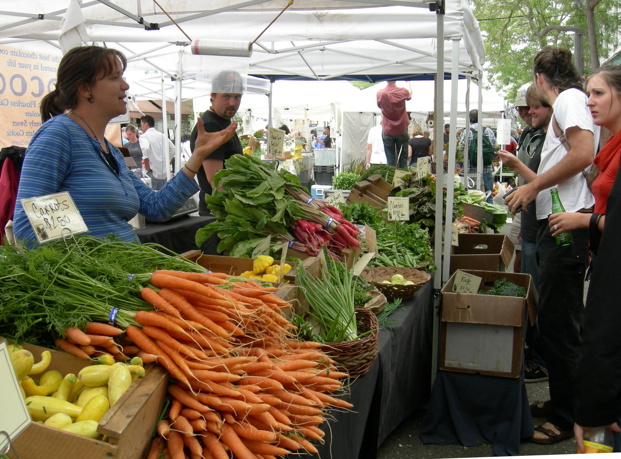 Carrots and other vegetables for sale at Ballard Sunday Farmers' Market, Ballard Avenue (historic district), Ballard, Seattle, Washington.